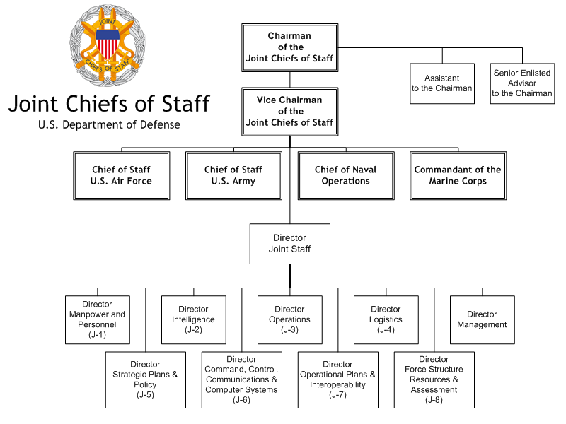 US Joint Chiefs of Staff and Joint Staff Organization Chart (JCS Logo under Public Domain)